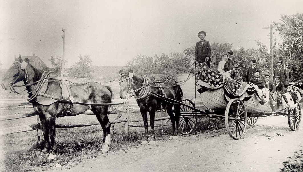 Funeral of Joshua James, famed lifesaver.